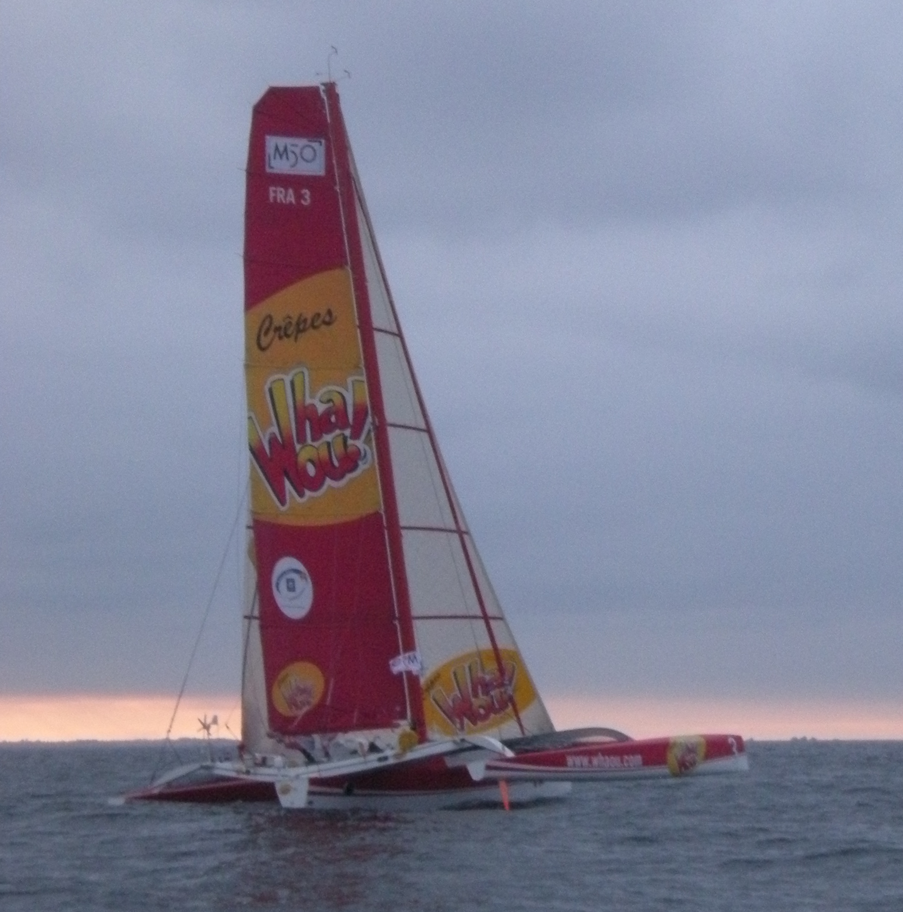 Crêpes Whaou ! 3 - Route du rhum 2010 N-E Bréhat